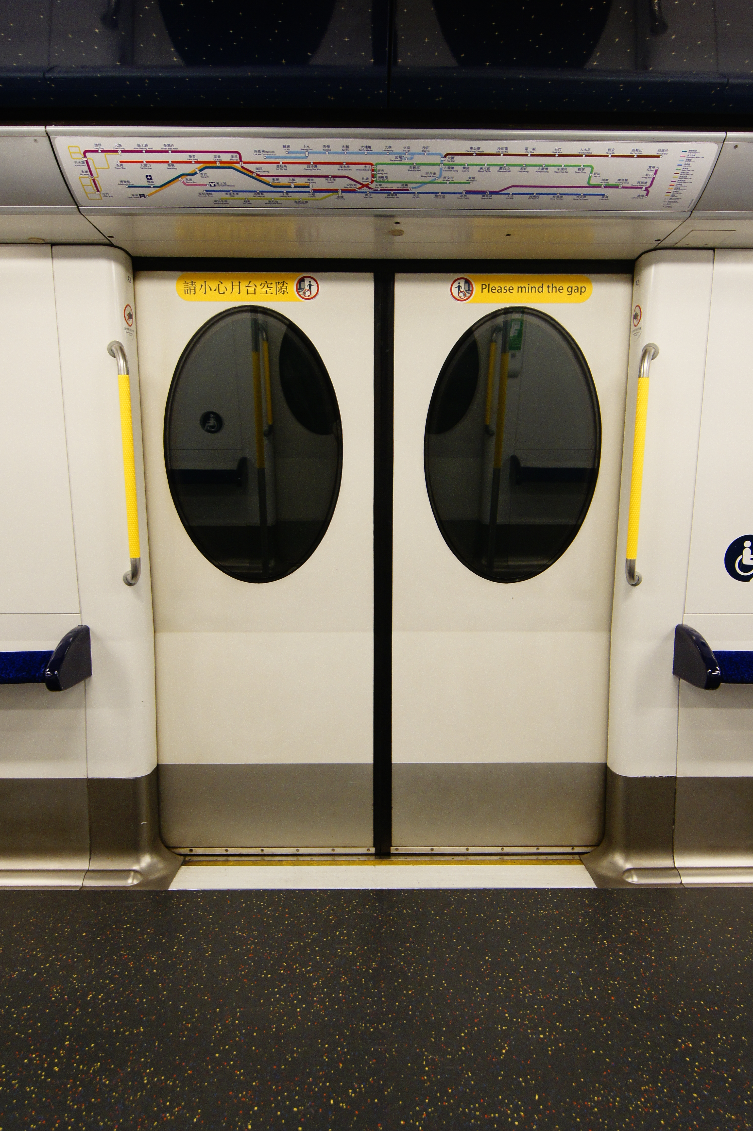 MTR Disneyland Resort Line M-Train train doors